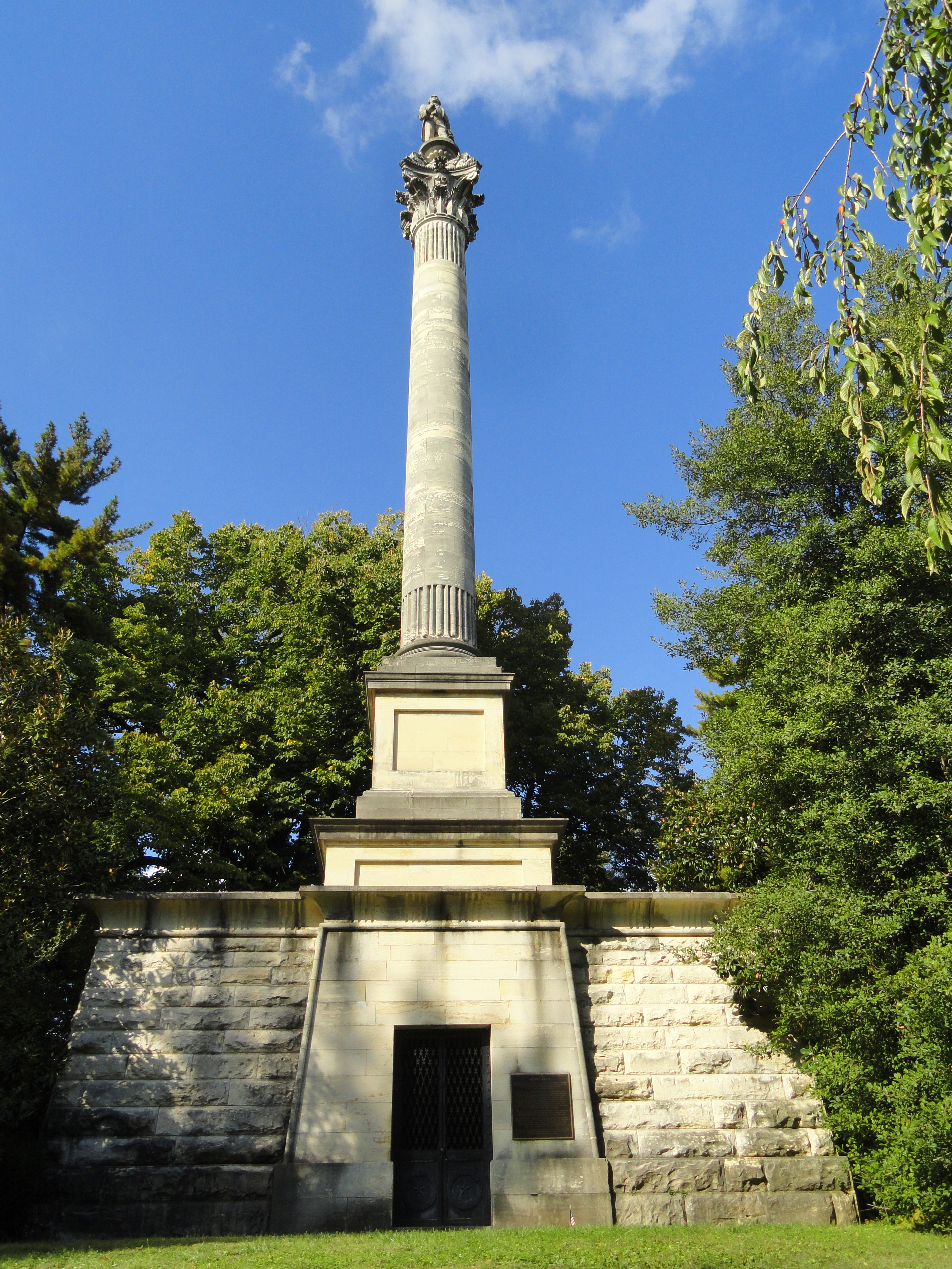 Henry Clay's grave in Lexington, Kentucky, USA.